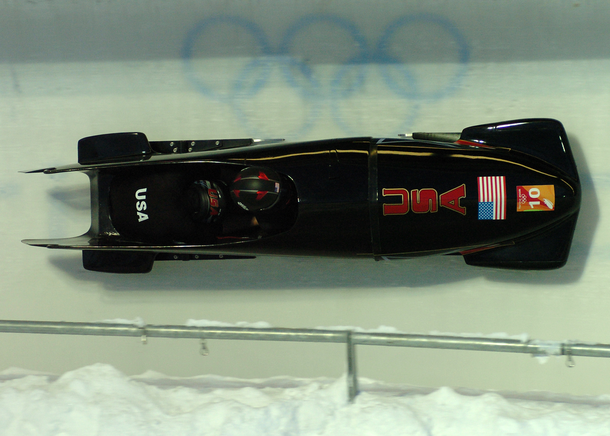 Bobsleigh of Shauna Rohbock Original description PC. Shauna Rohbock, a member of the National Guard Outstanding Athlete Program, pilots USA-1 under the Olympic logo on curve 11 of the Cesana Pariol bobsled track in the Italian Alps. Tuesday, Rohbock, along with brakeman Valerie Fleming, won Silver in the Women’s Bobsled competition at the XX Winter Olympics. Jack Gillund